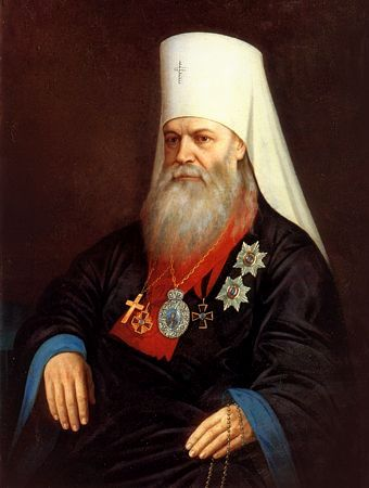 Mitropolitan Macarius (Bulgakov)